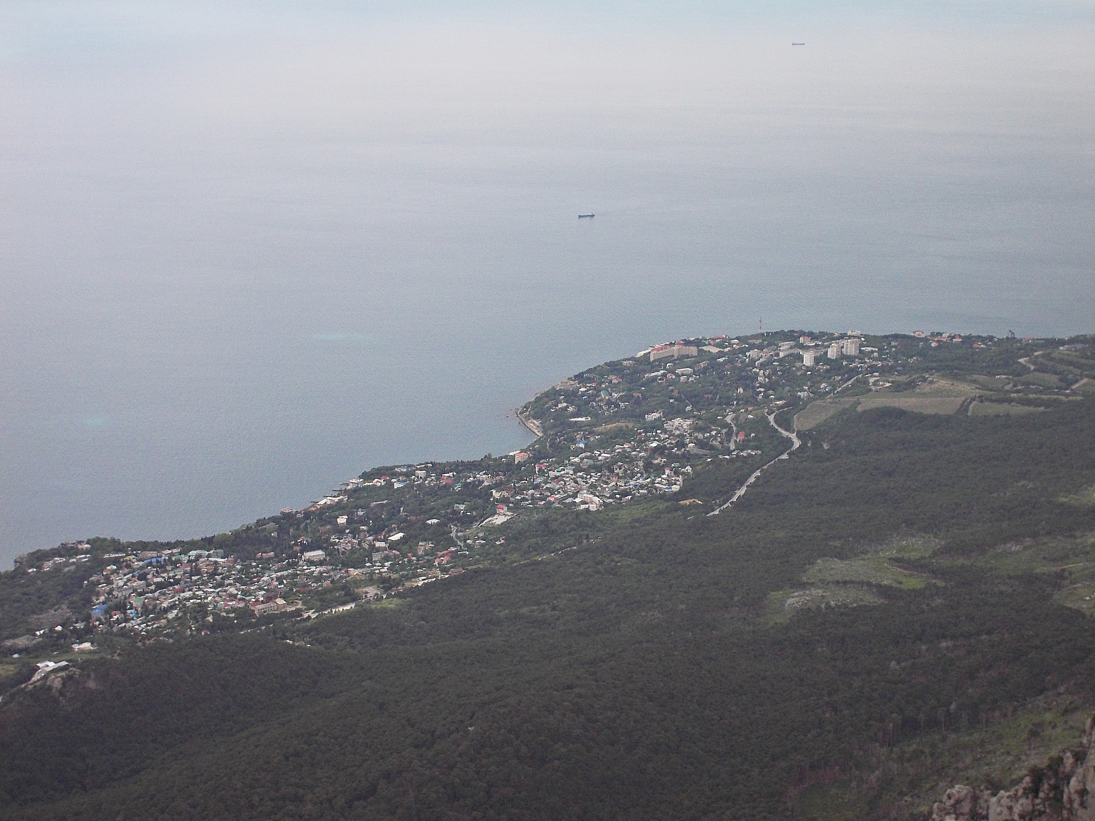 A view on Alupka from Ai Petri mountain